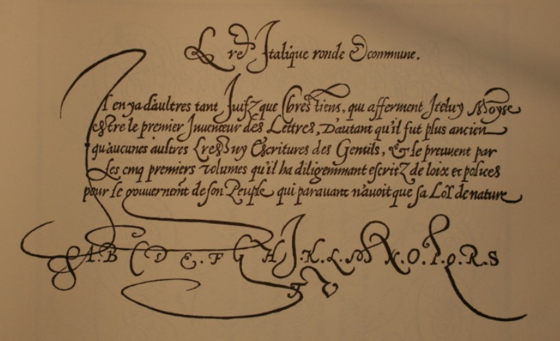 Calligraphy example